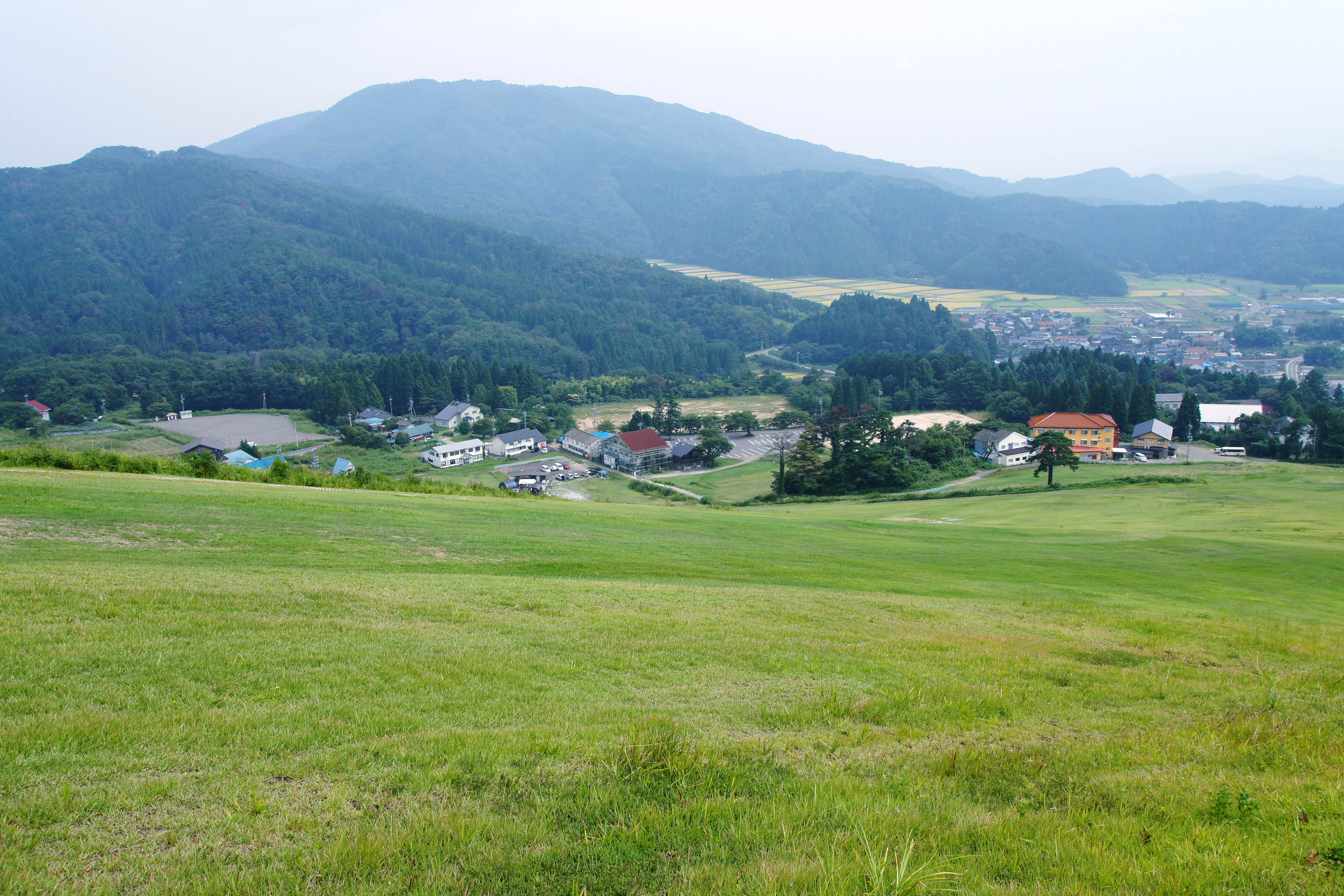 At Mount Kannabe in Kannabe highlands, Toyooka, Hyogo prefecture, Japan.